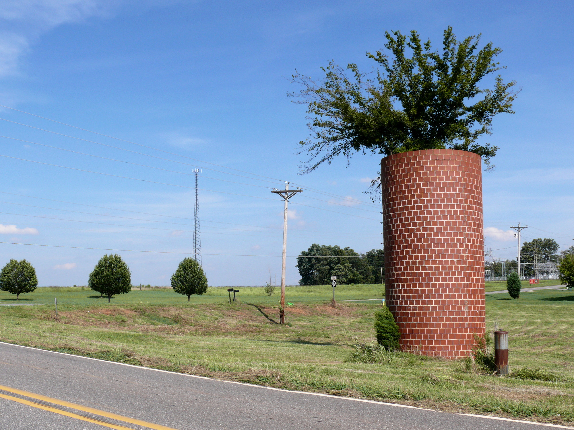 A tree grows up through the center of an abandoned grain silo on NC State Highway 27 a few miles west of Lincolnton. Photo taken with a Panasonic Lumix DMC-FZ50 in Lincoln County, NC, USA.